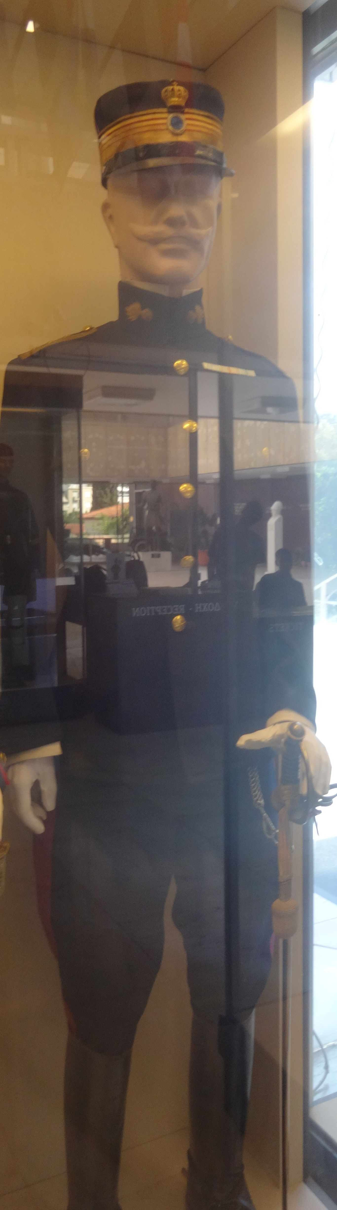 Uniform of Greek artillery colonel in 1915, War museum, Athens, Greece